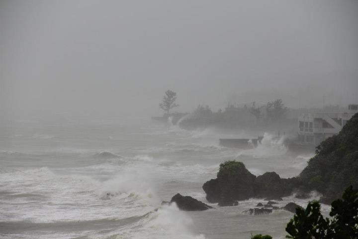 The effects of Typhoon Bolaven are still felt on Okinawa Aug. 28, one day after the storm passed over the island. The maximum sustained wind speed recorded on Kadena Air Base was 67 mph with gusts up to 85 mph while a large amount of rain also soaked the island, according to Air Force Master Sgt. Joseph Round, the weather flight chief with 18th Operations Support Squadron, Weather Flight, Kadena Air Base.